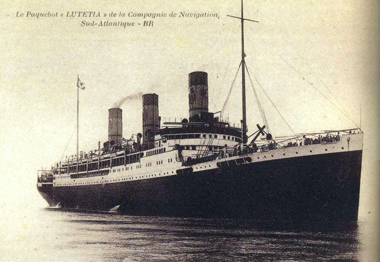 14,783 GRT passenger liner and packet boat Lutetia, built in 1913 by Chantiers de l'Atlantique of St Nazaire for Compagnie Sud Atlantique. She became a troop ship in 1914, an armed merchant cruiser in 1915 and later in the First World War was refitted as a hospital ship and then converted back into a troop ship. She was refitted in 1919–20 and returned to civilian service. She was laid up in 1938 and then scrapped.